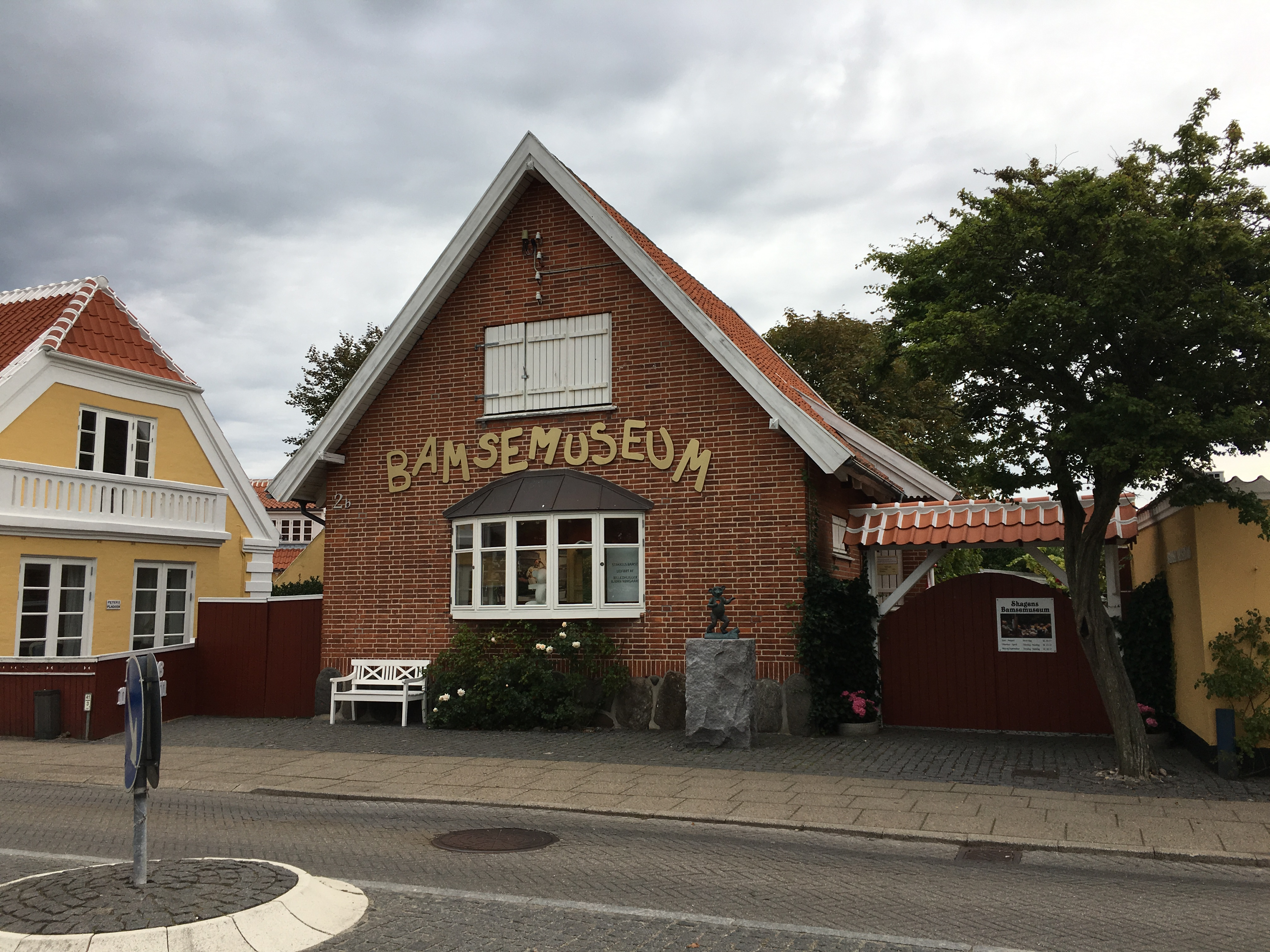 Tedy bear museum in Skagen, Denmark